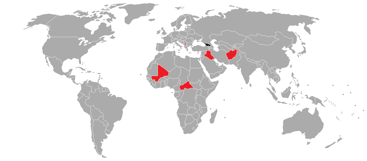 Georgian Army - Operations abroad since 1991.